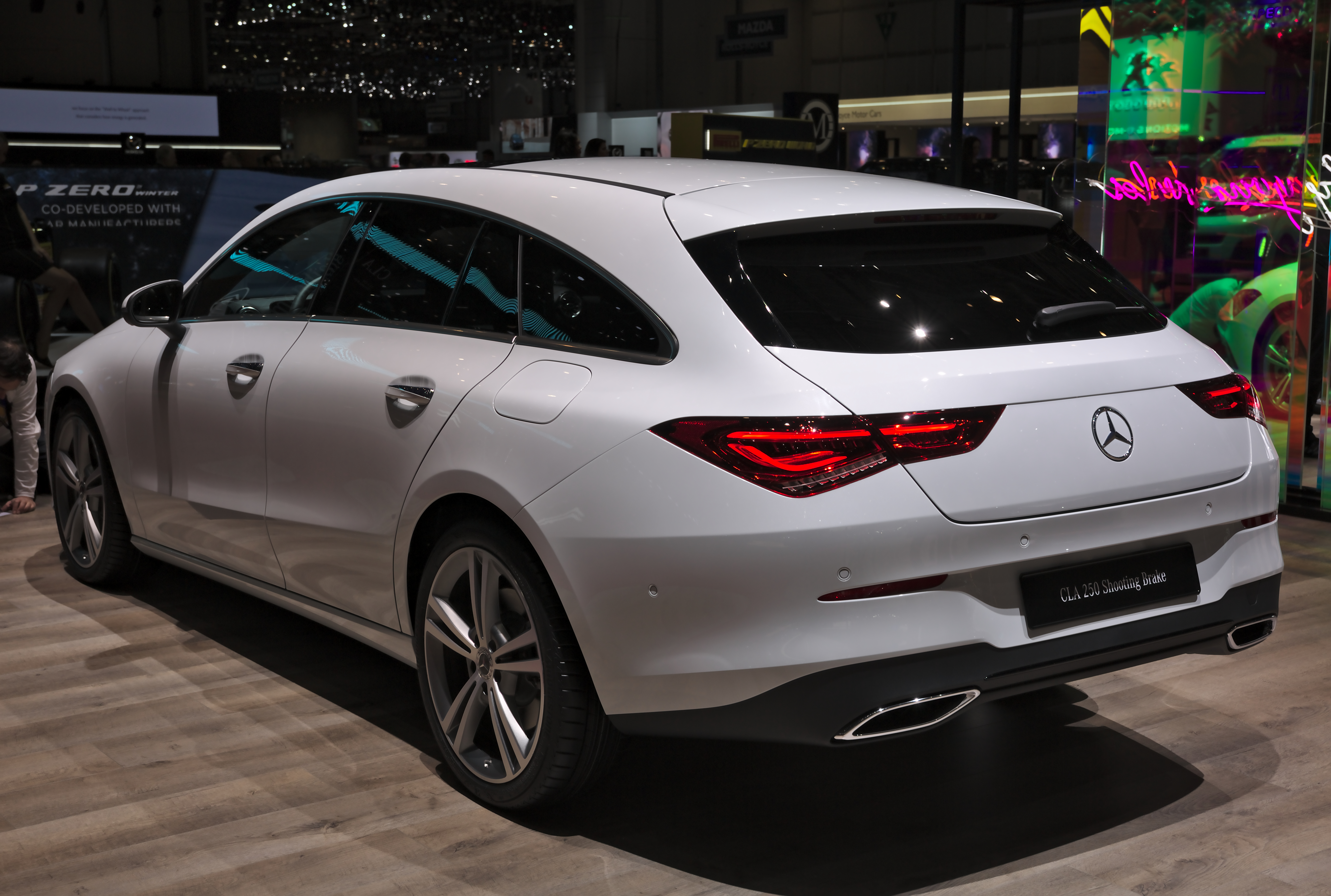 Mercedes-Benz CLA 250 Shooting Brake at Geneva Motor Show 2019